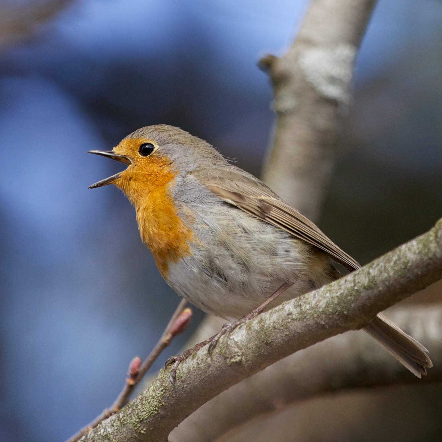 A European Robin in Norway.